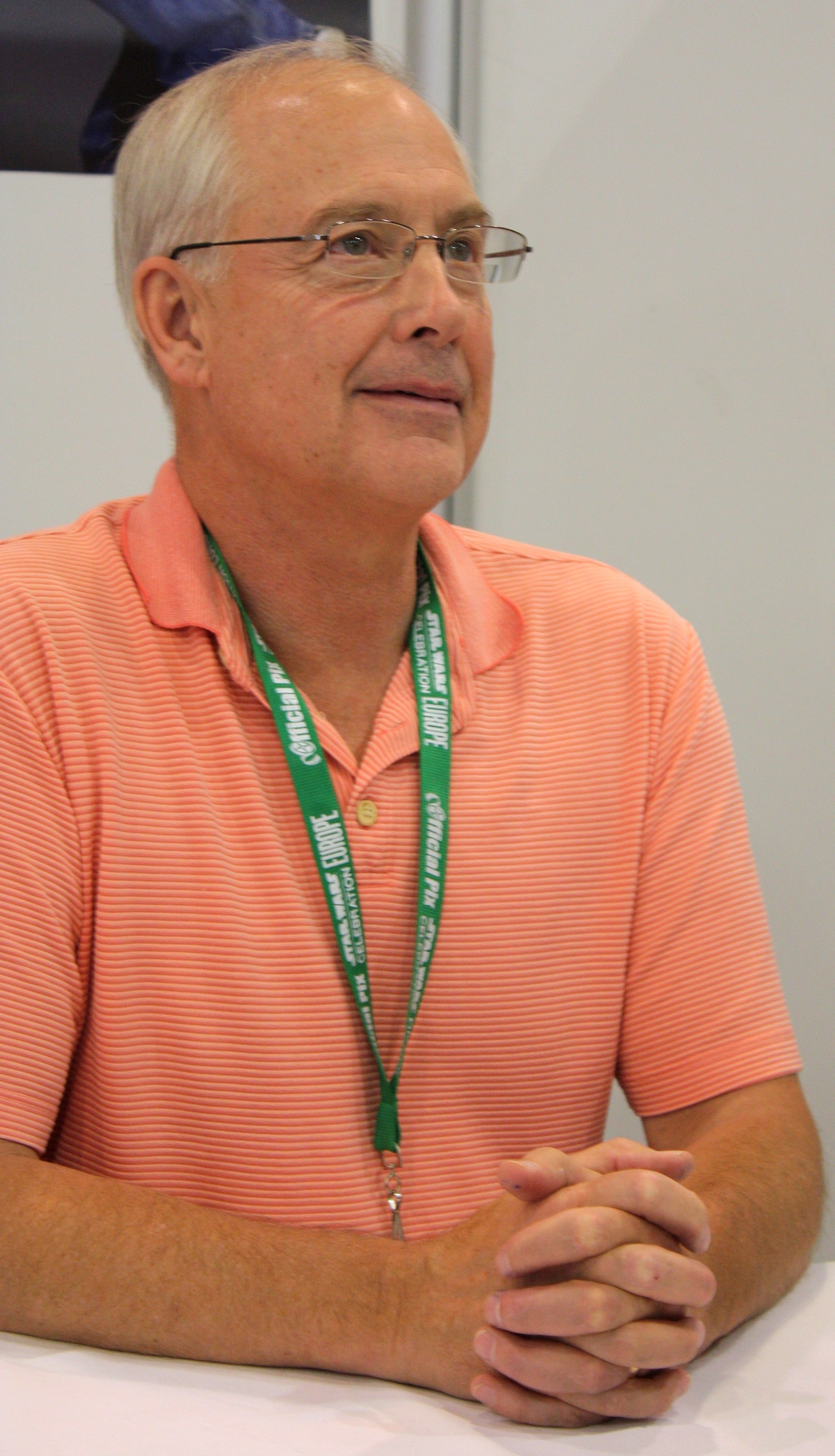 Acadamy Award winner and sound designer Ben Burtt at Star Wars Celebration Europe II in Essen, Germany.